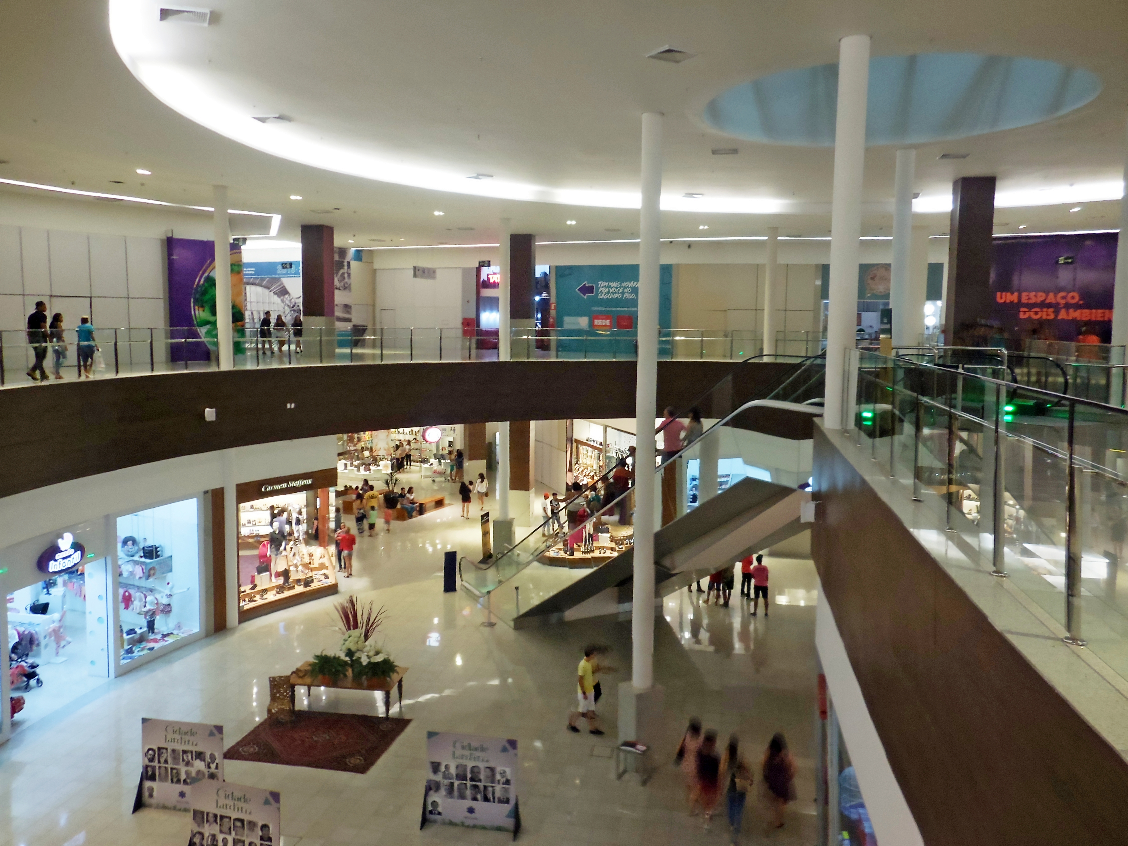 Interior view of the Shopping Vale do Aço, in Ipatinga, Minas Gerais, Brazil.